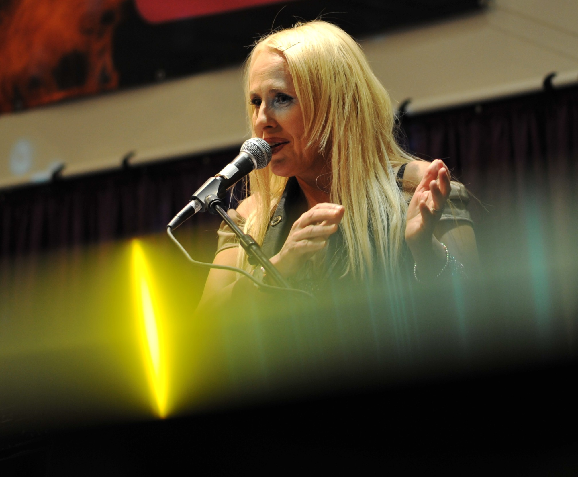 Maarit Hurmerinta, Finnish singer, Stoa, Helsinki, October 2009.